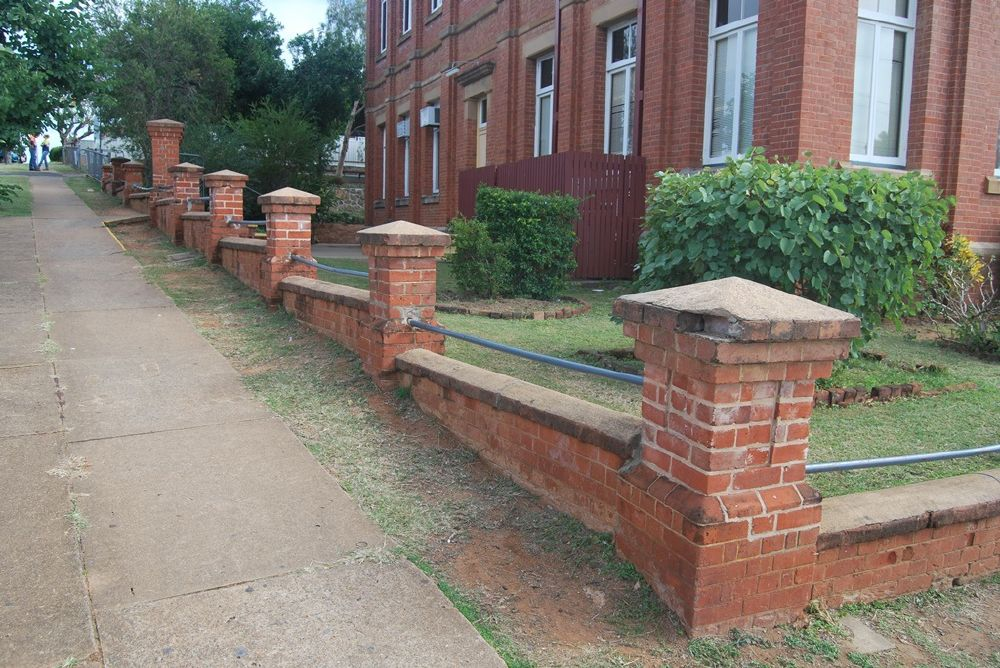 Brick fence located S and E of the former Technical College Building, from SE (2015)